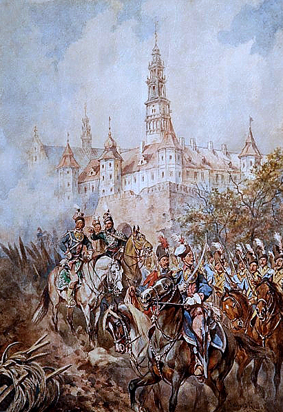 Kazimierz Pułaski at Częstochowa's walls